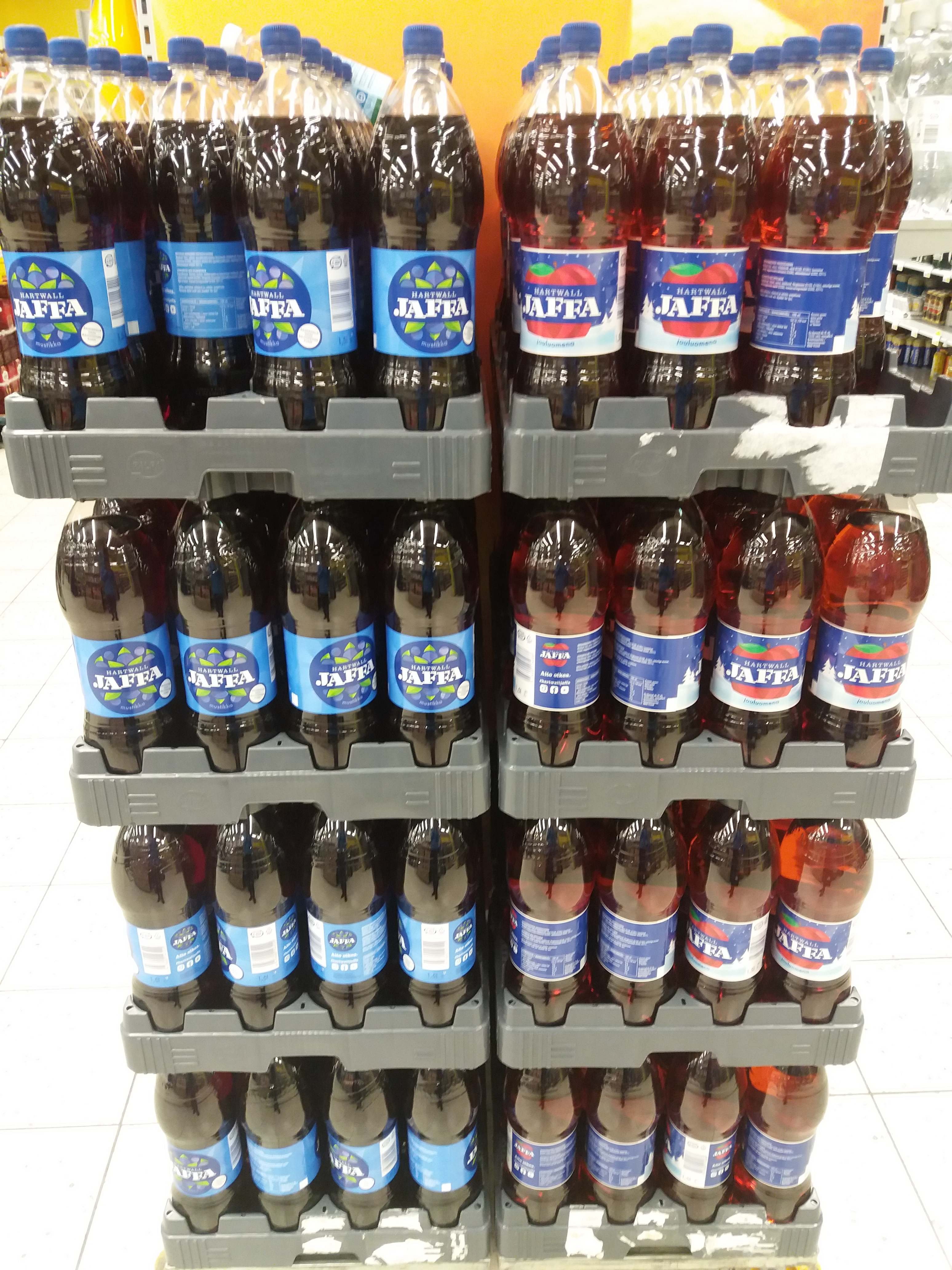 Hartwall Jaffa Mustikka (blueberry) and Jouluomena (Christmas apple) soft drink bottles in S-Market Itäkeskus, Helsinki, Finland